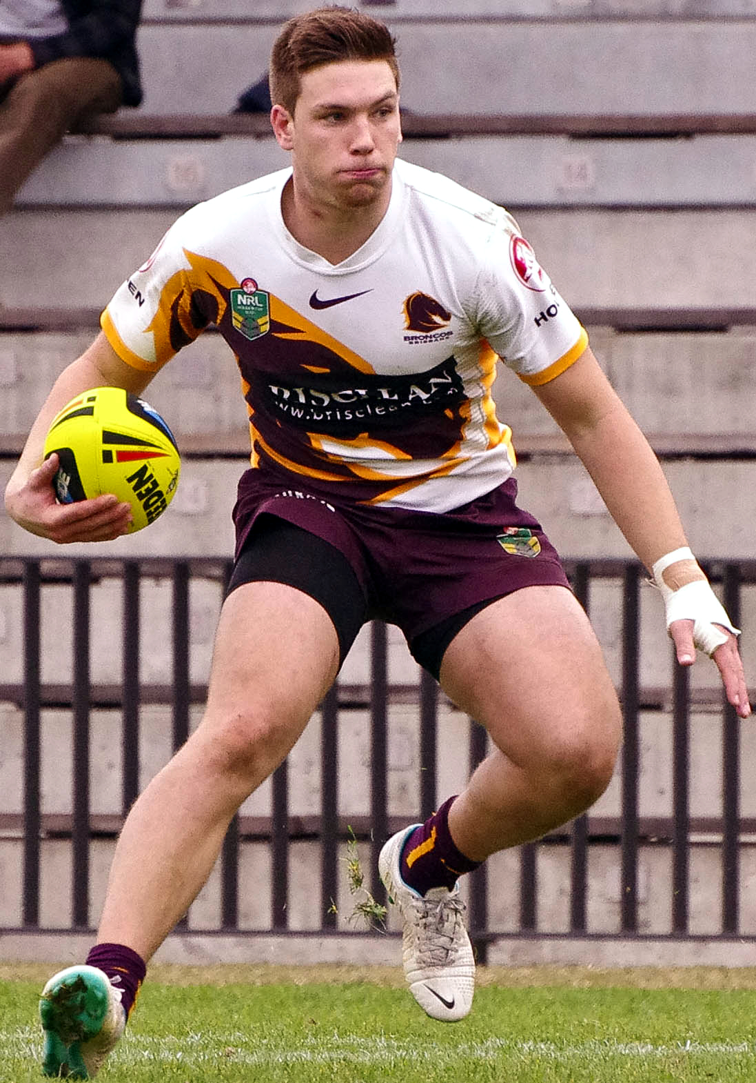 Tom Opacic